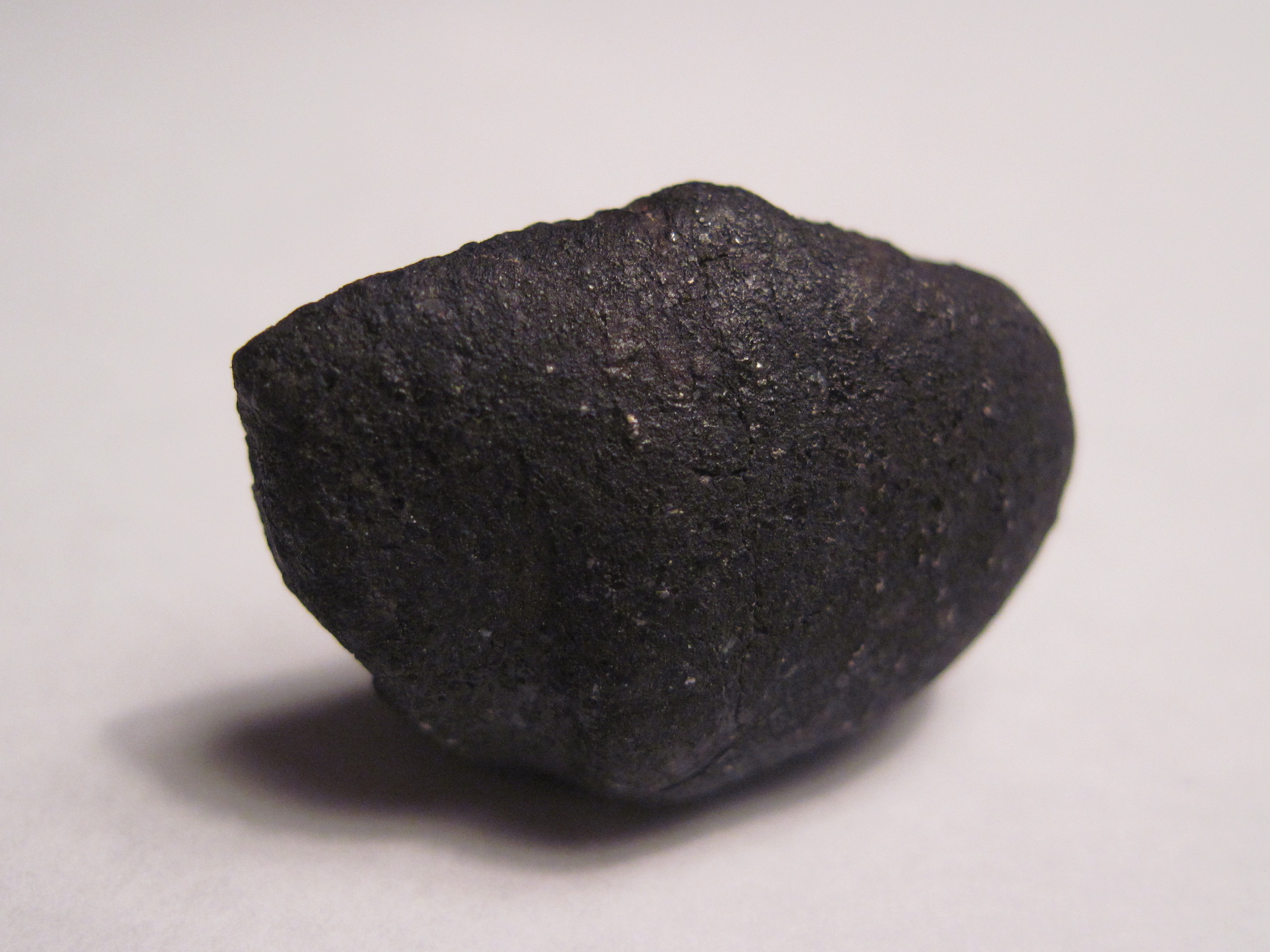 Chergach meteorite, crusted individual, 5.7 gram.